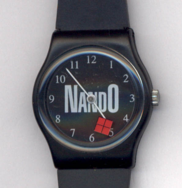 Nando watch